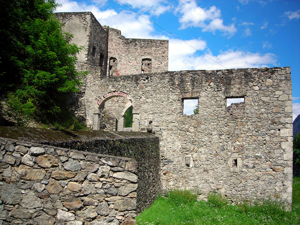 ruin of the Lienzer Klause in East Tyrol